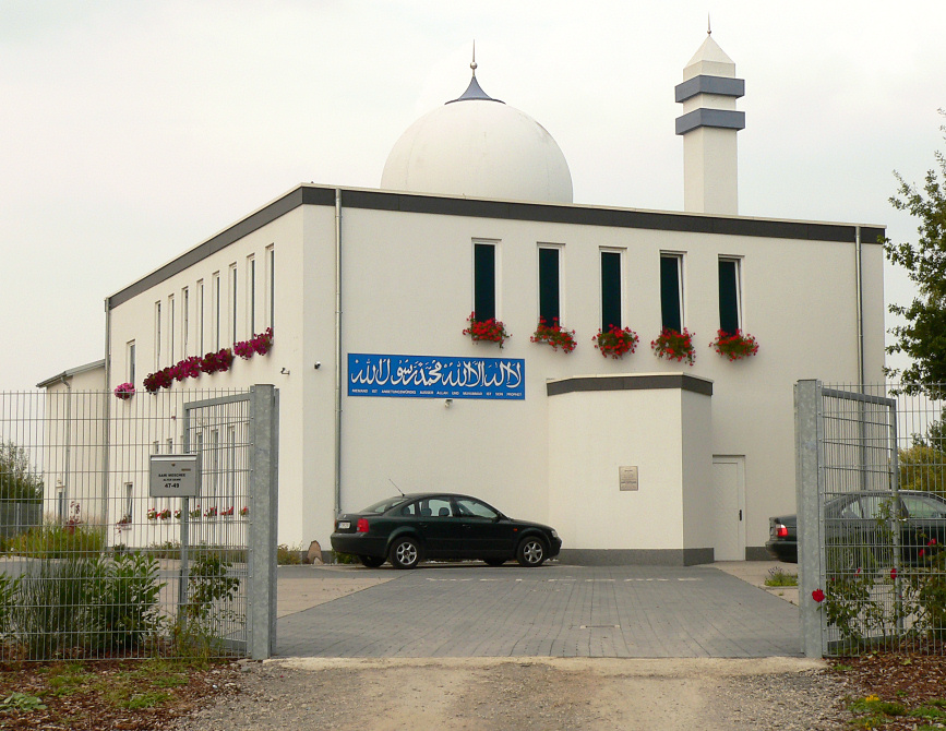 Bait us-Sami in Hanover. The Mosque was built by the Ahmadiyya Muslim Jamaat in 2008.